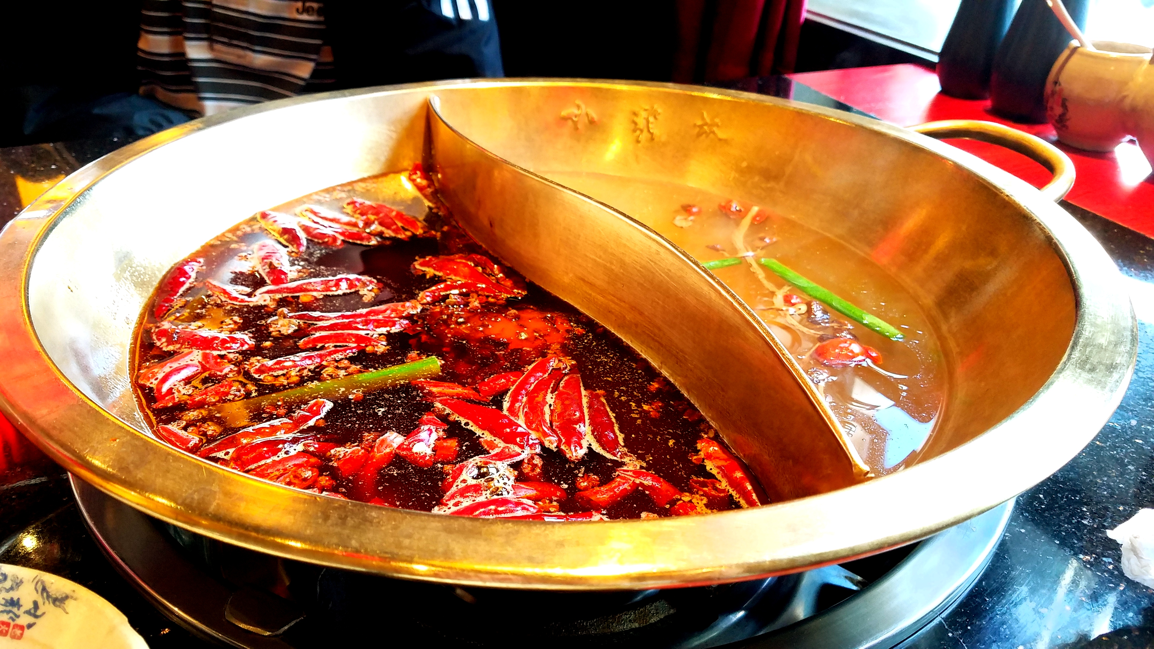 Yuanyang Chongqing Hotpot, Xiao Long Kan Hotpot Restaurant, Box Hill